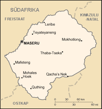 Map of Lesotho, german language